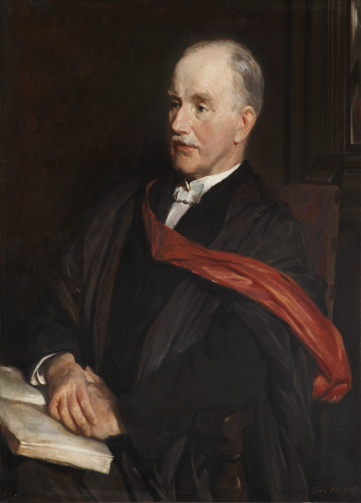 Joseph Wells (1855-1929), Fellow (1882), Warden (1913-1927)